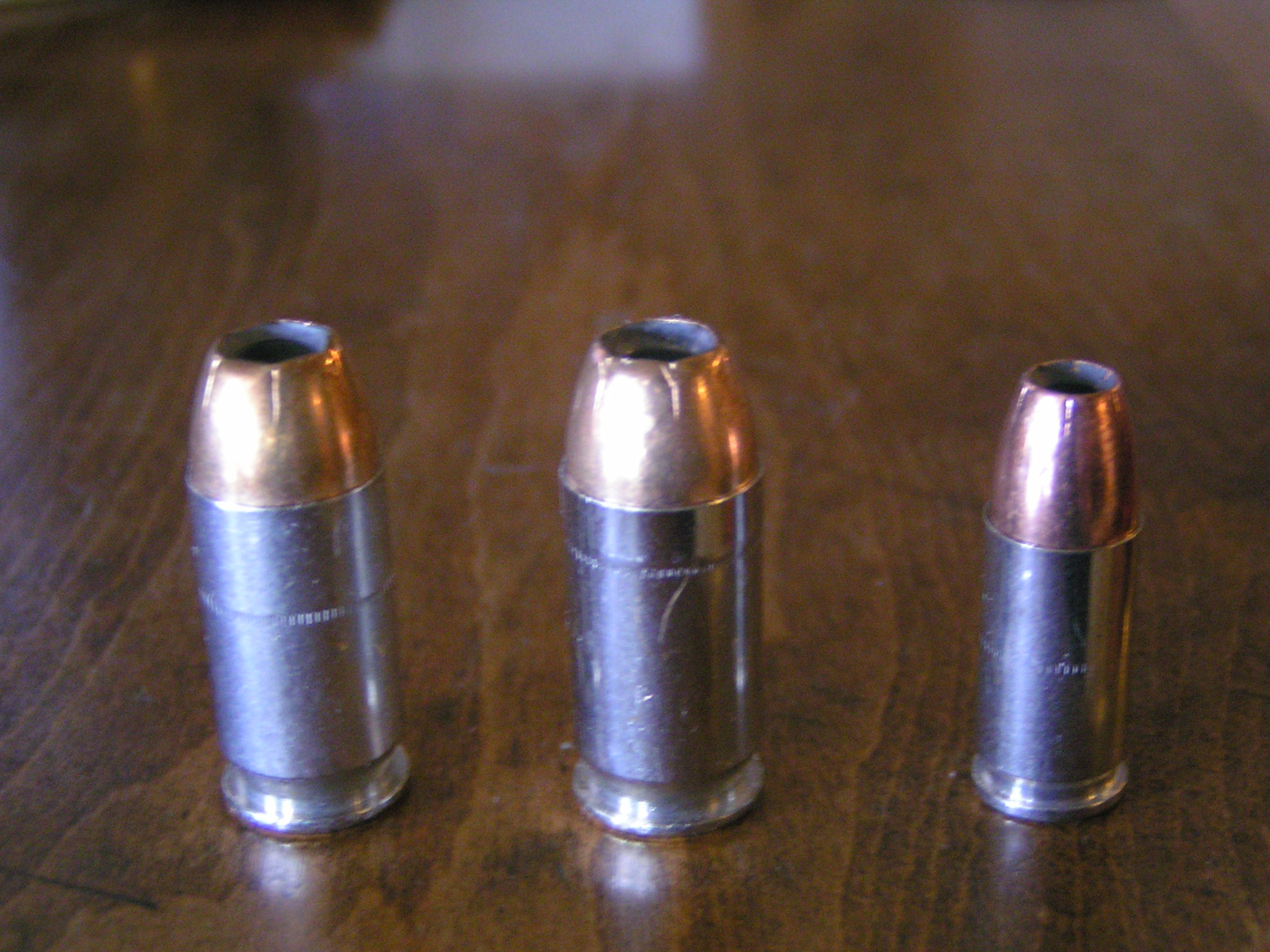 Three Federal Hydra-Shok cartridges. From left to right: 230 grain .45 ACP, 165 grain .45 ACP, 147 grain 9mm. Oregon, United States